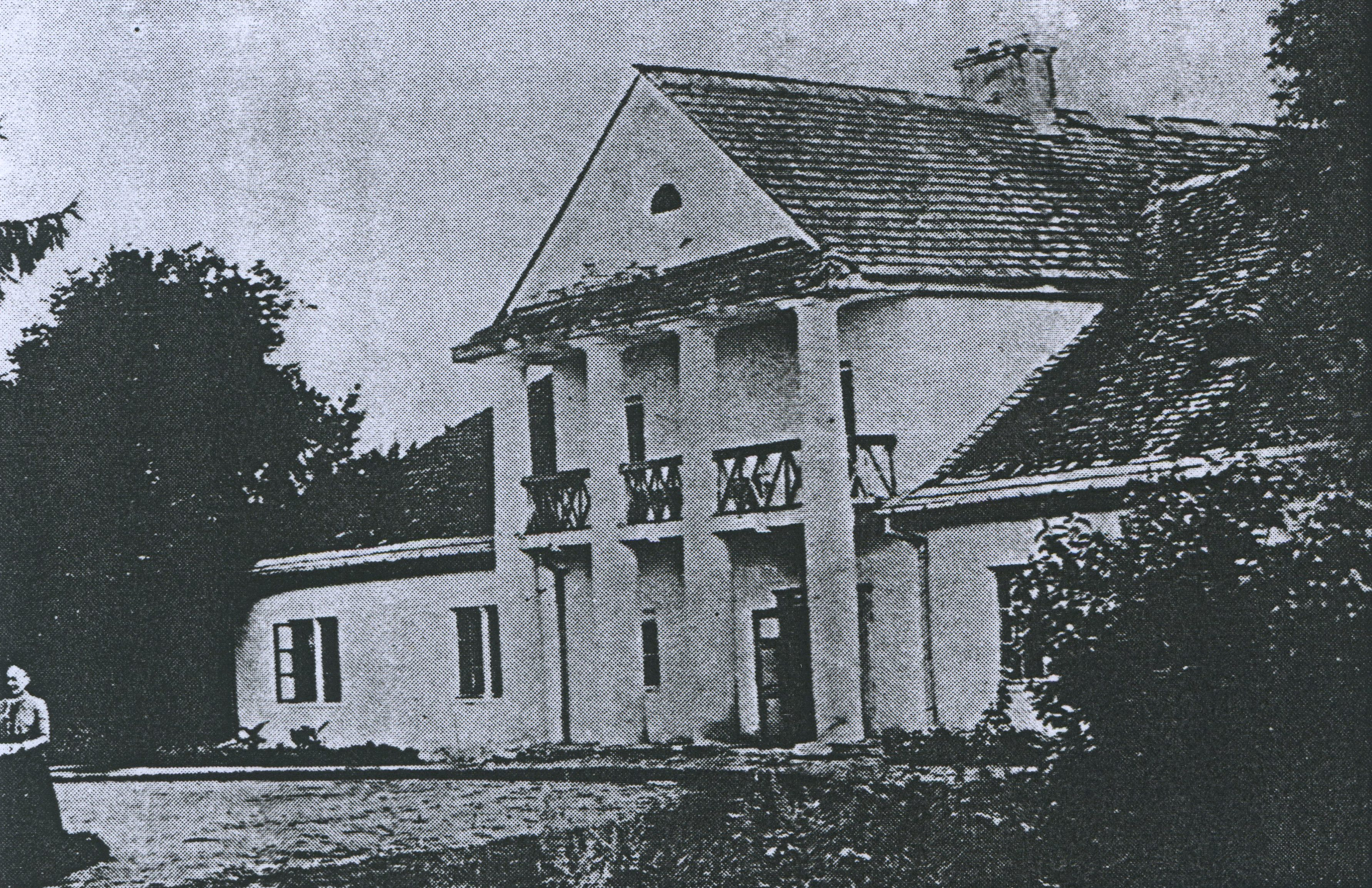 Pyszki on Ukraine. Photo reproduced in: Roman Aftanazy, "Dzieje rezydencji na dawnych kresach Rzeczypospolitej", volume 5: "Województwo Wołyńskie", ed. Wrocław 1994